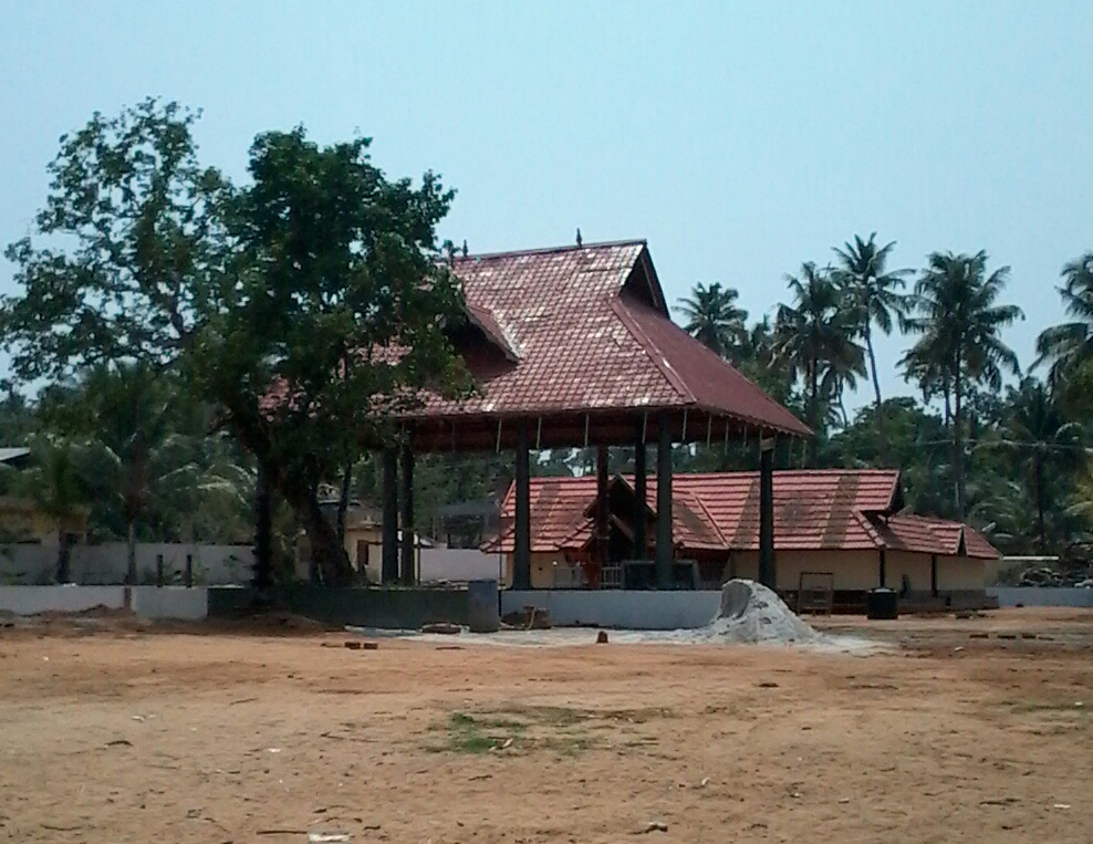 Palathara Durga Temple is located at Palathara in Kollam District, Kerala, India.The primary deity of the temple is Goddess Durga.